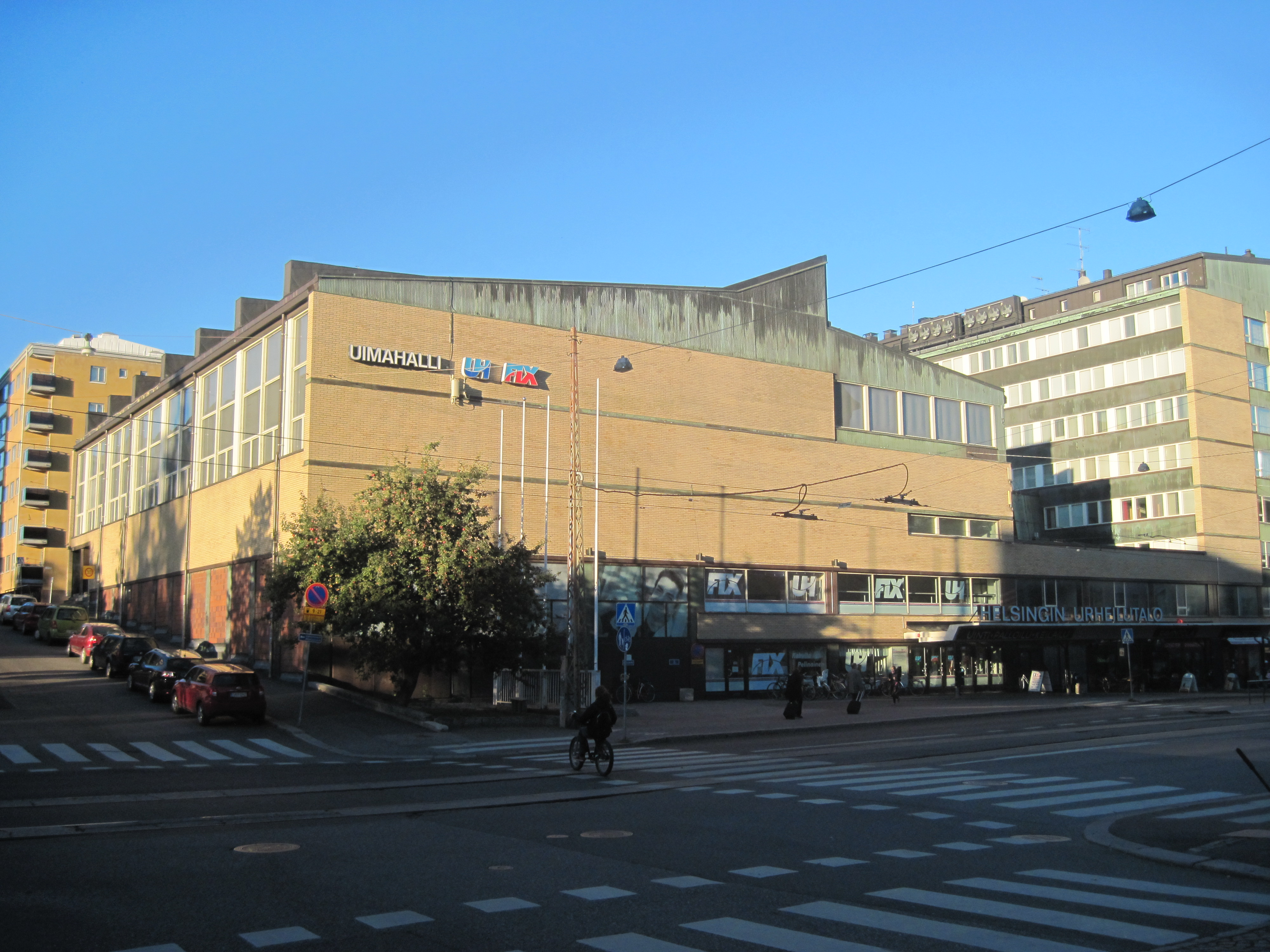 Helsingin urheilutalo as seen from the corner of Helsinginkatu and Kirstinkatu, in Helsinki, Finland.